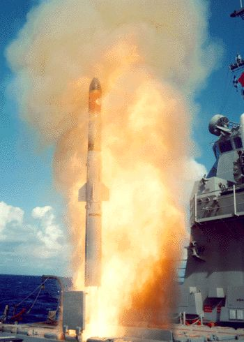 Vertical Launch ASROC launch